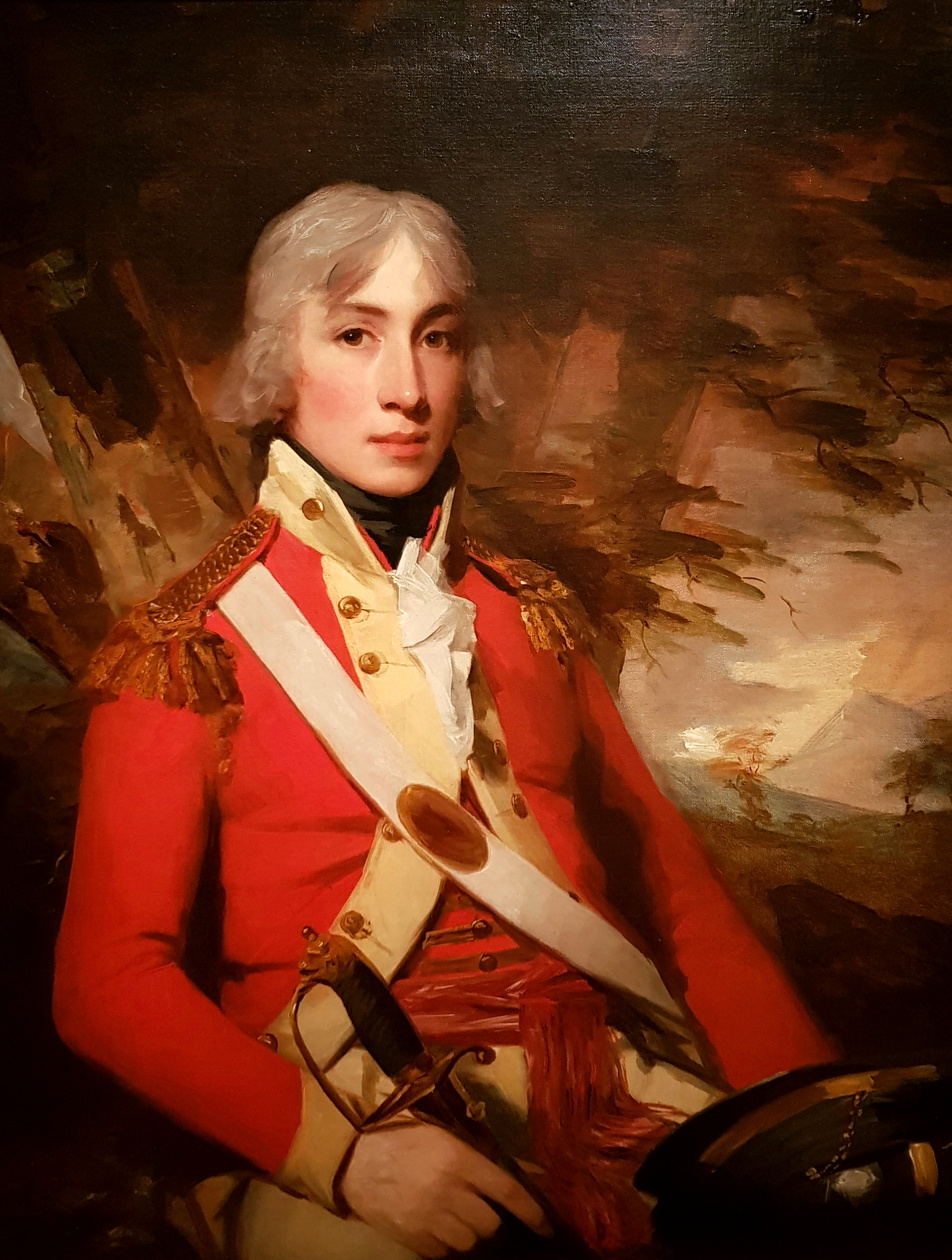 John Alexander Paul (1780-1868), later in life baronet Macgregor and General in the Bengal Army at about 15 years of age, probably just before his sailing as a cadet to India.